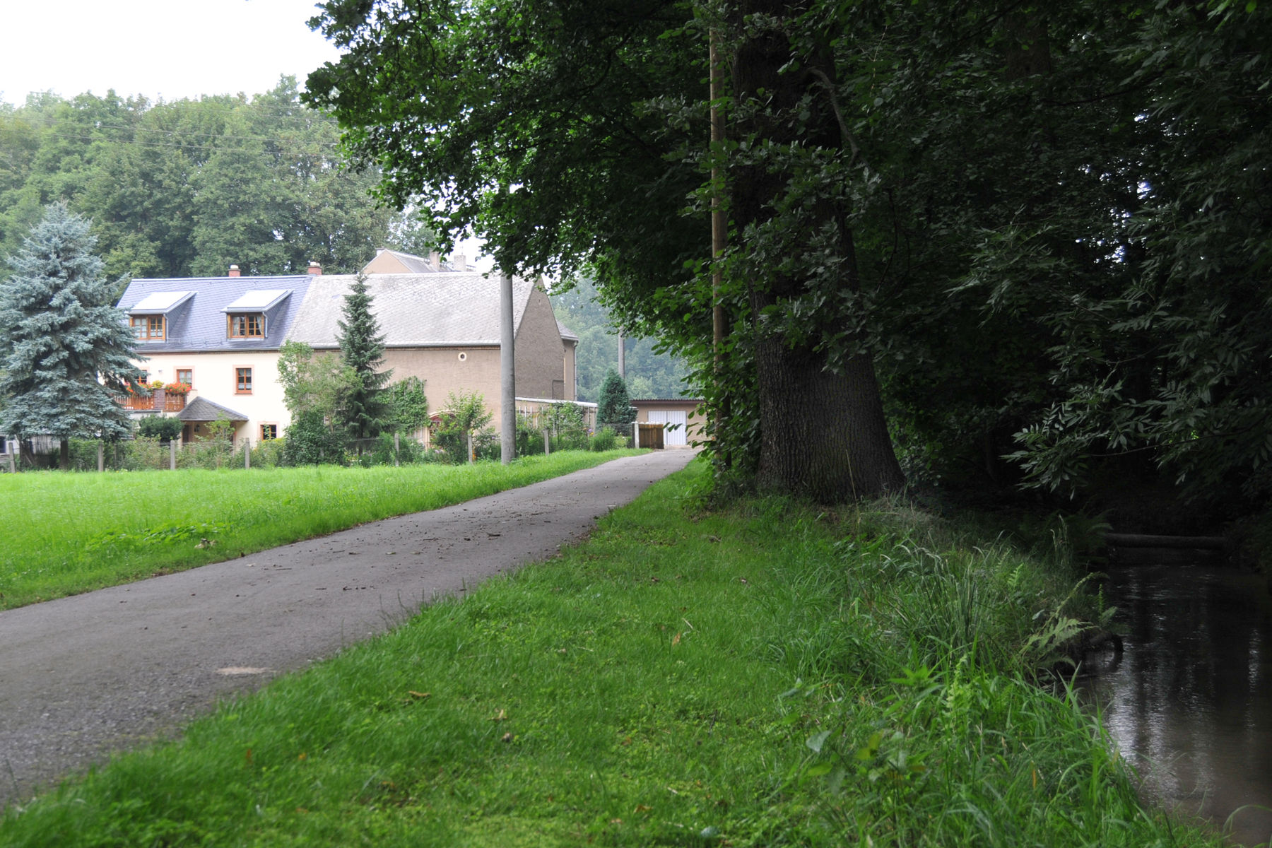 Niedermühle Graupzig with Ketzerbach